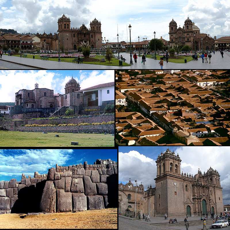 Montage of landmarks in Cusco